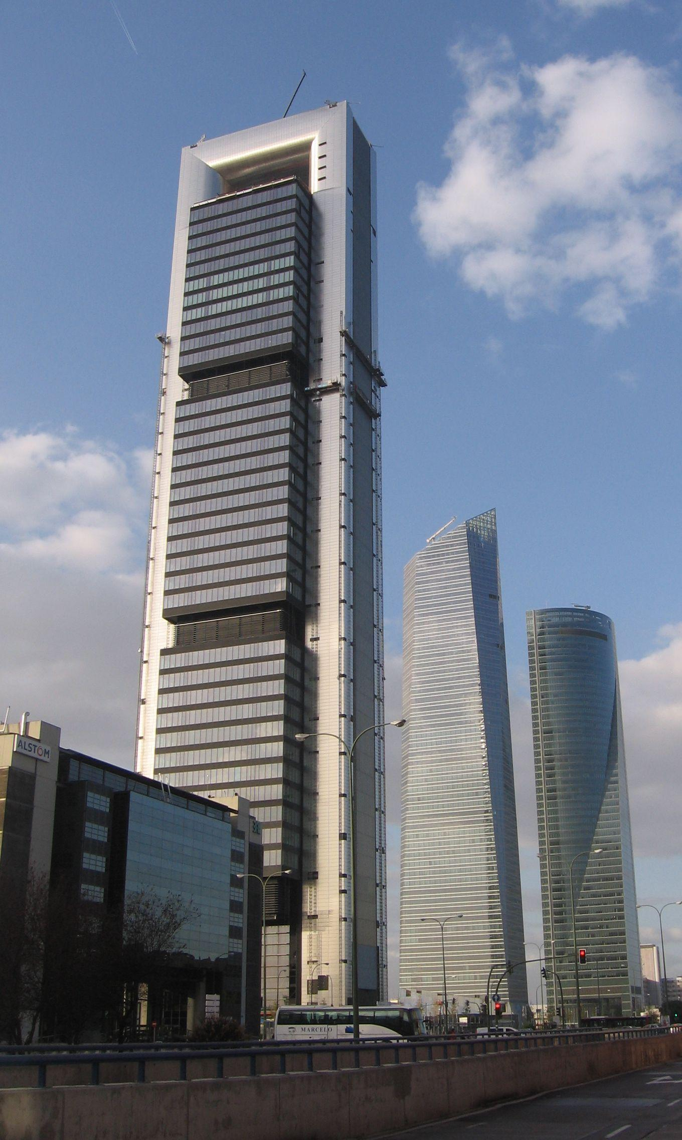 CTBA, Madrid.